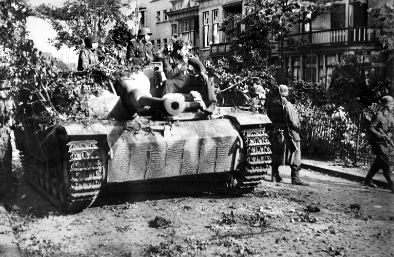 Members of the 9th SS in Arnhem after Operation Market Garden